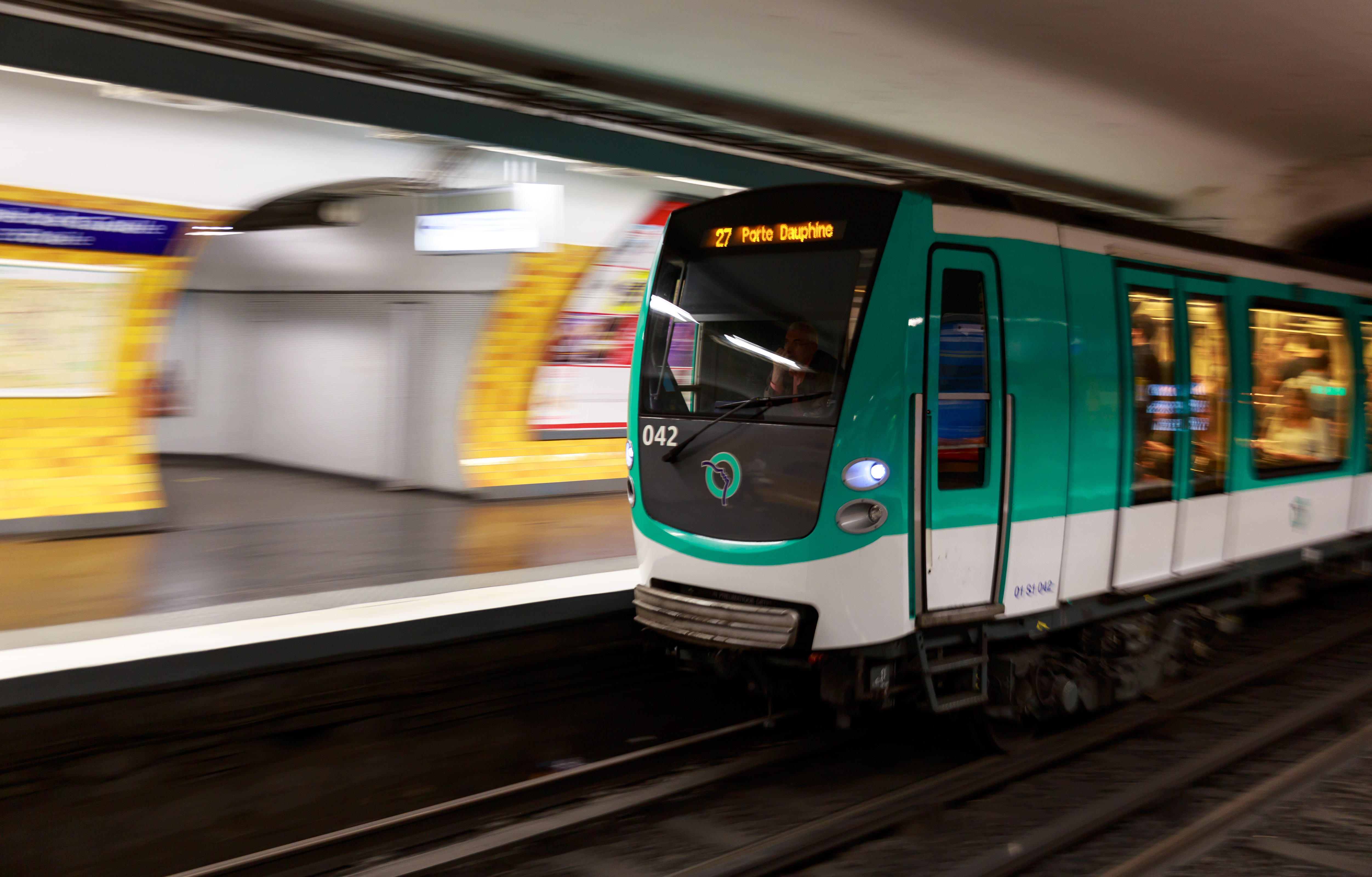 A MF 01 enters Charles de Gaulle – Étoile (line 2).